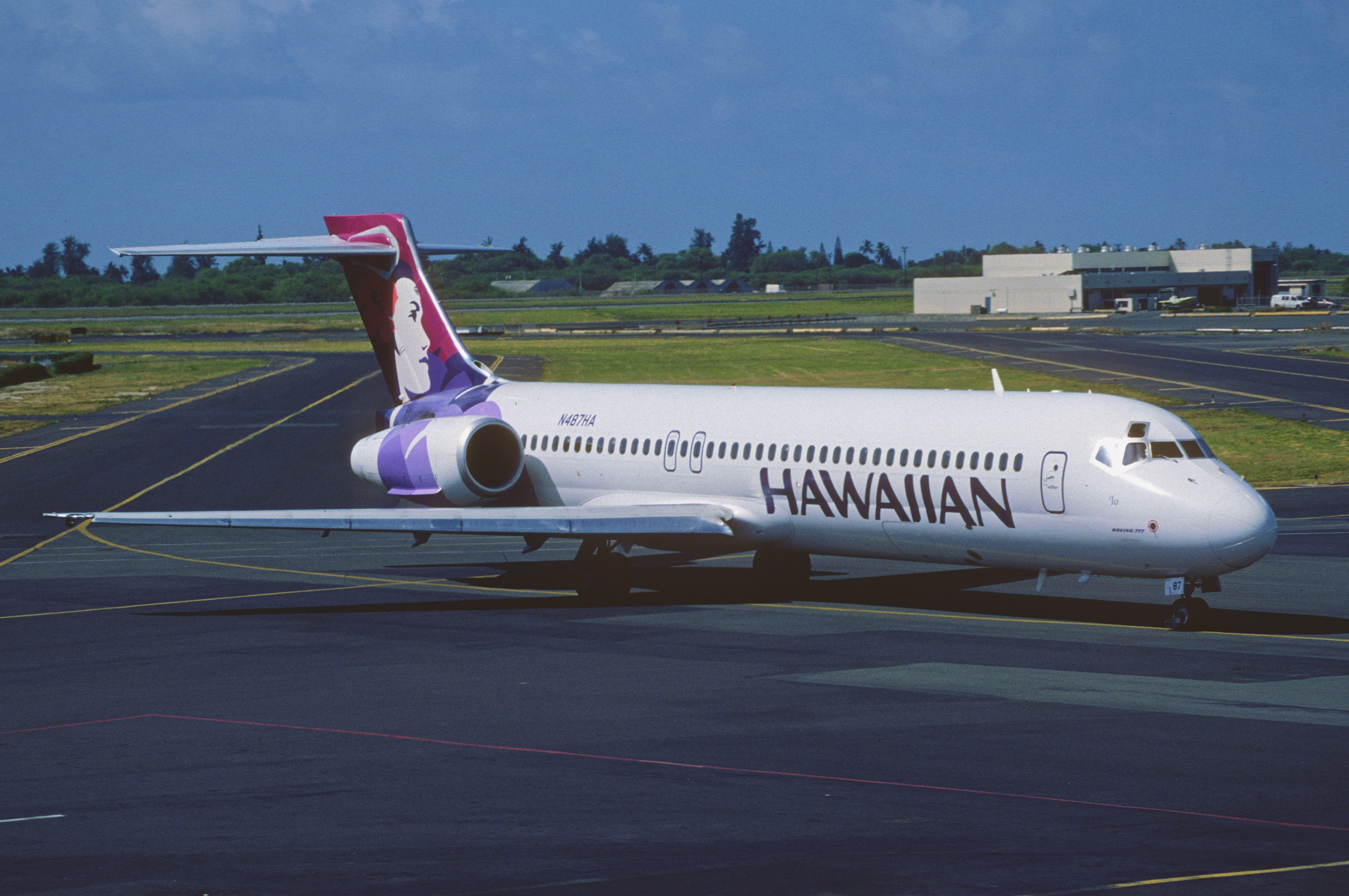 343aq - Hawaiian Airlines Boeing 717-22A; N487HA@HNL;06.03.2005